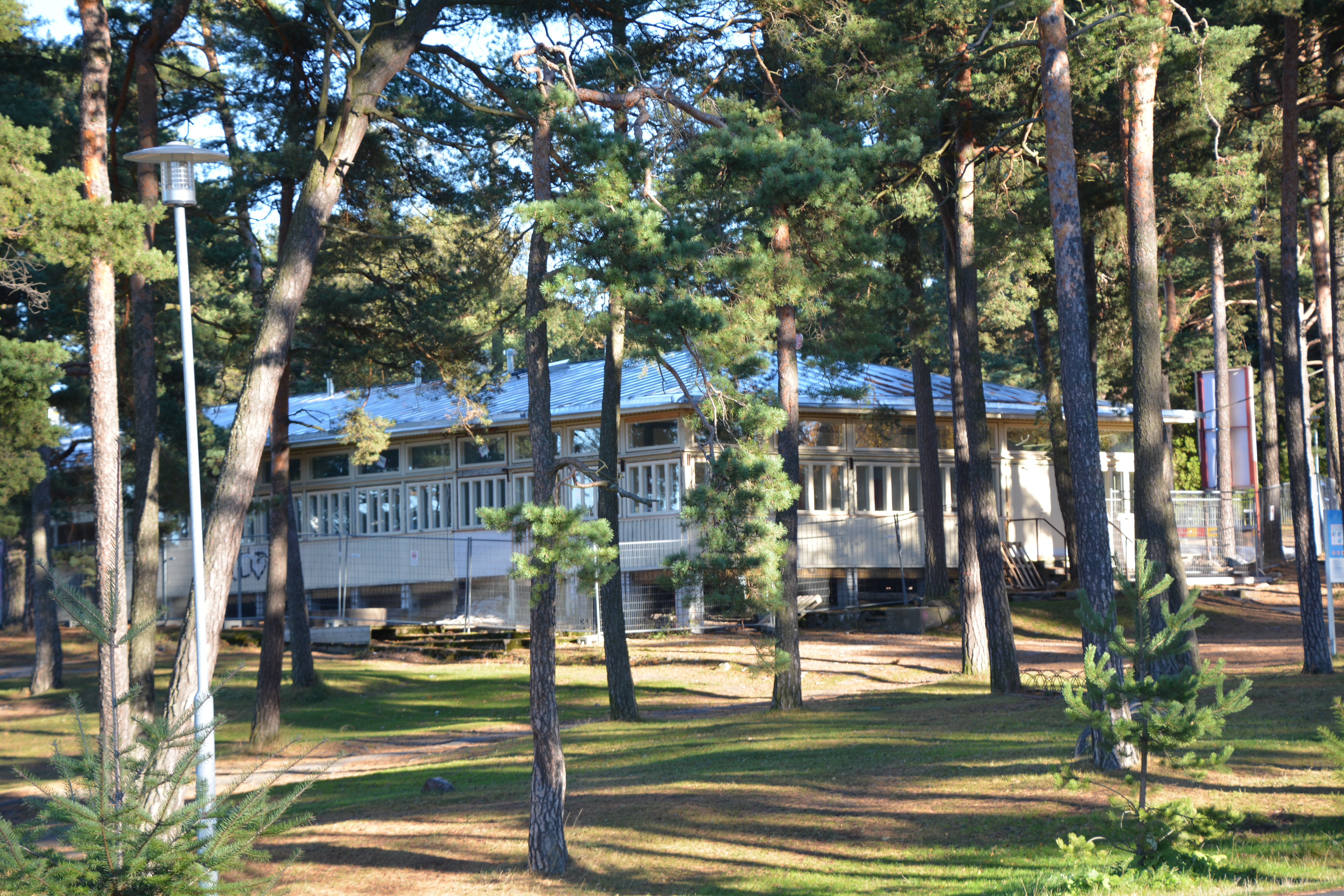 Sandudds paviljong, Sandudd, Helsingfors